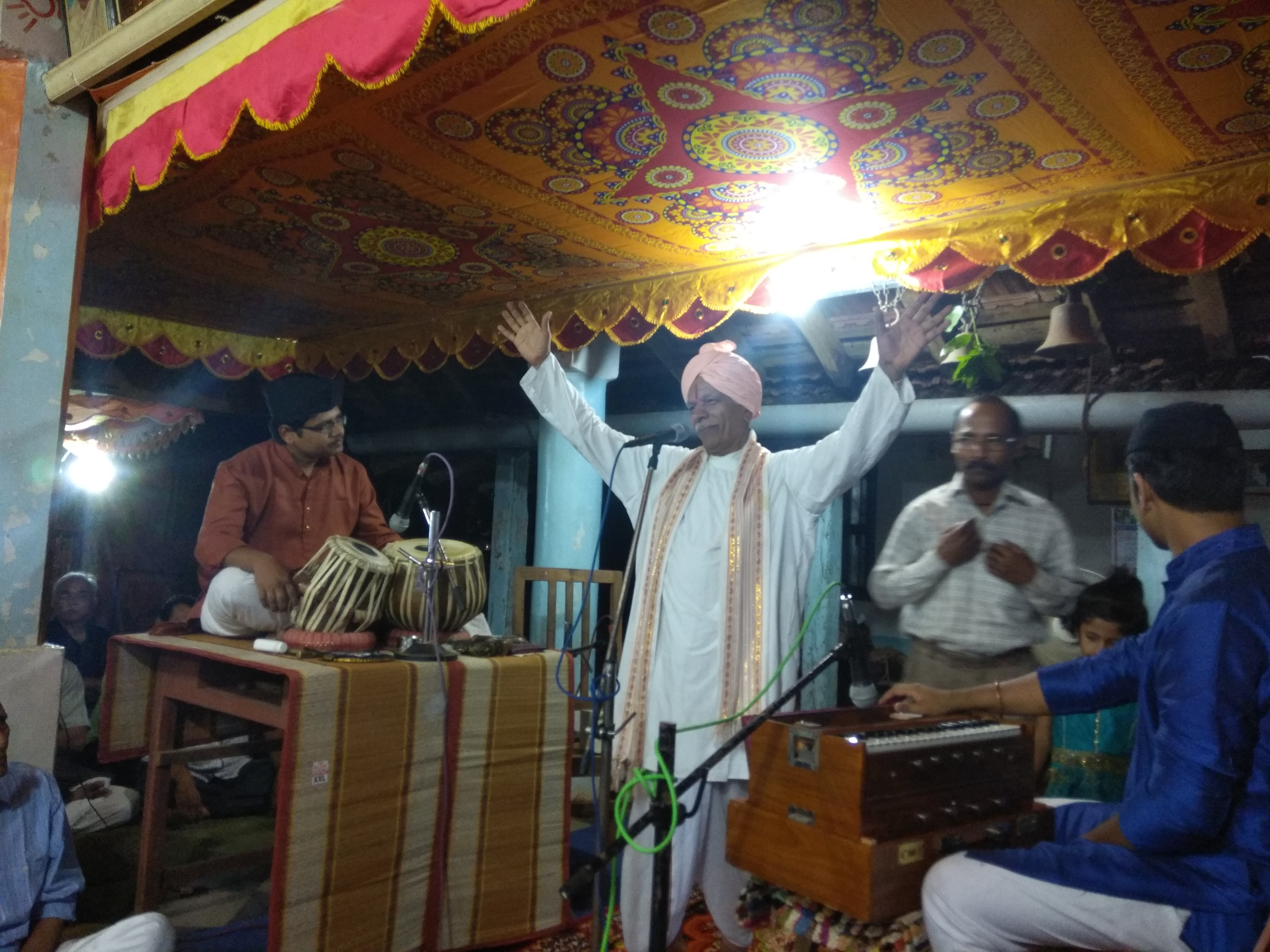 Datta Jayanti Festival in konkan